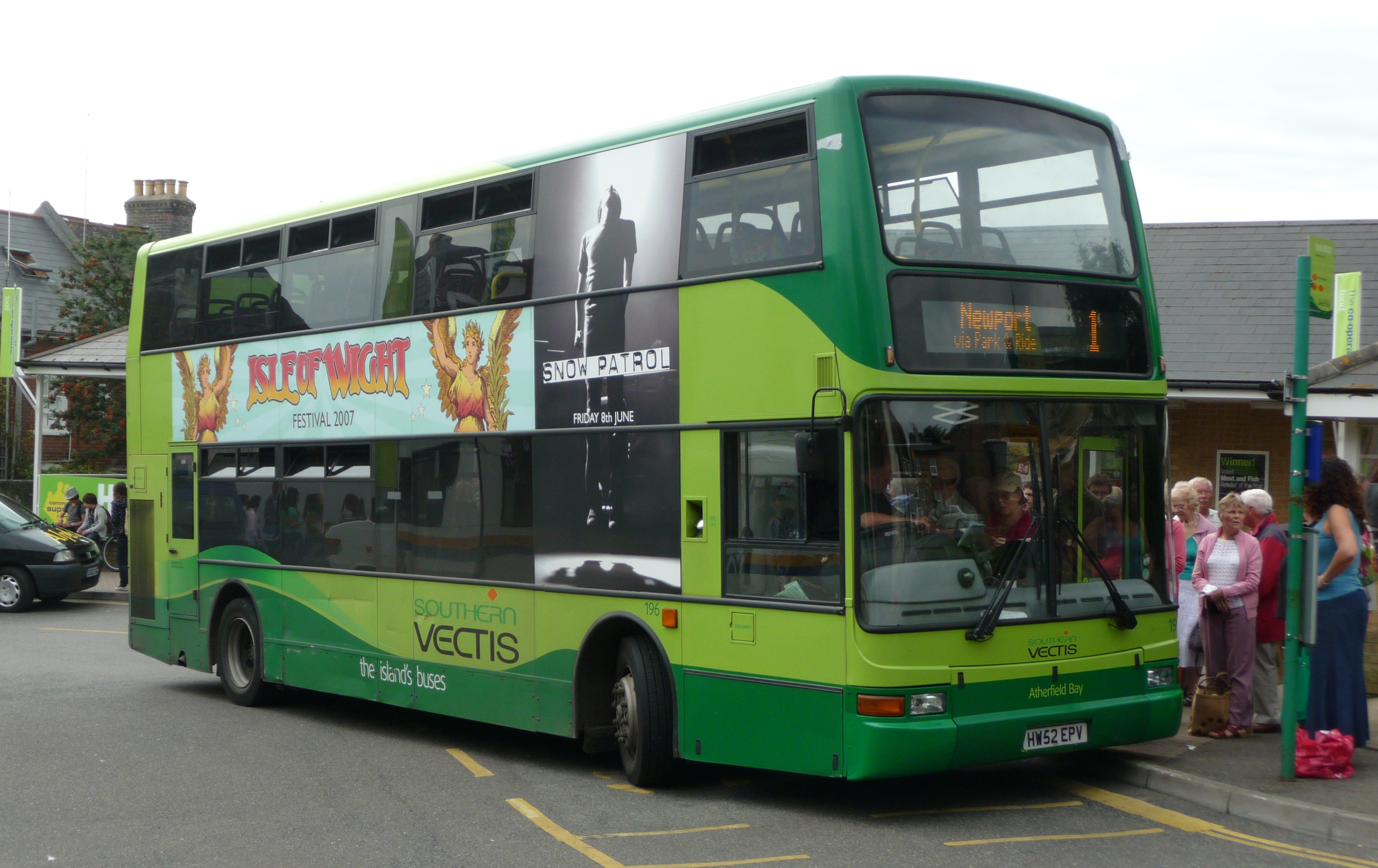 Southern Vectis 196 Atherfield Bay (HW52 EPV), a Volvo B7TL/Plaxton President, at the Co-op in Carvel Lane, Cowes, Isle of Wight, on route 1. Because it was Cowes Week at the time, route 1 was not serving the Red Jet terminal, meaning double-deckers could be used.